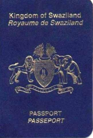 Front cover of a Swazi passport